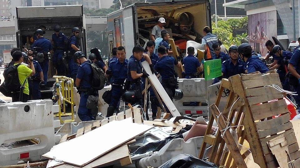 Umbrella Revolution Police clear Roadblock in Queensway